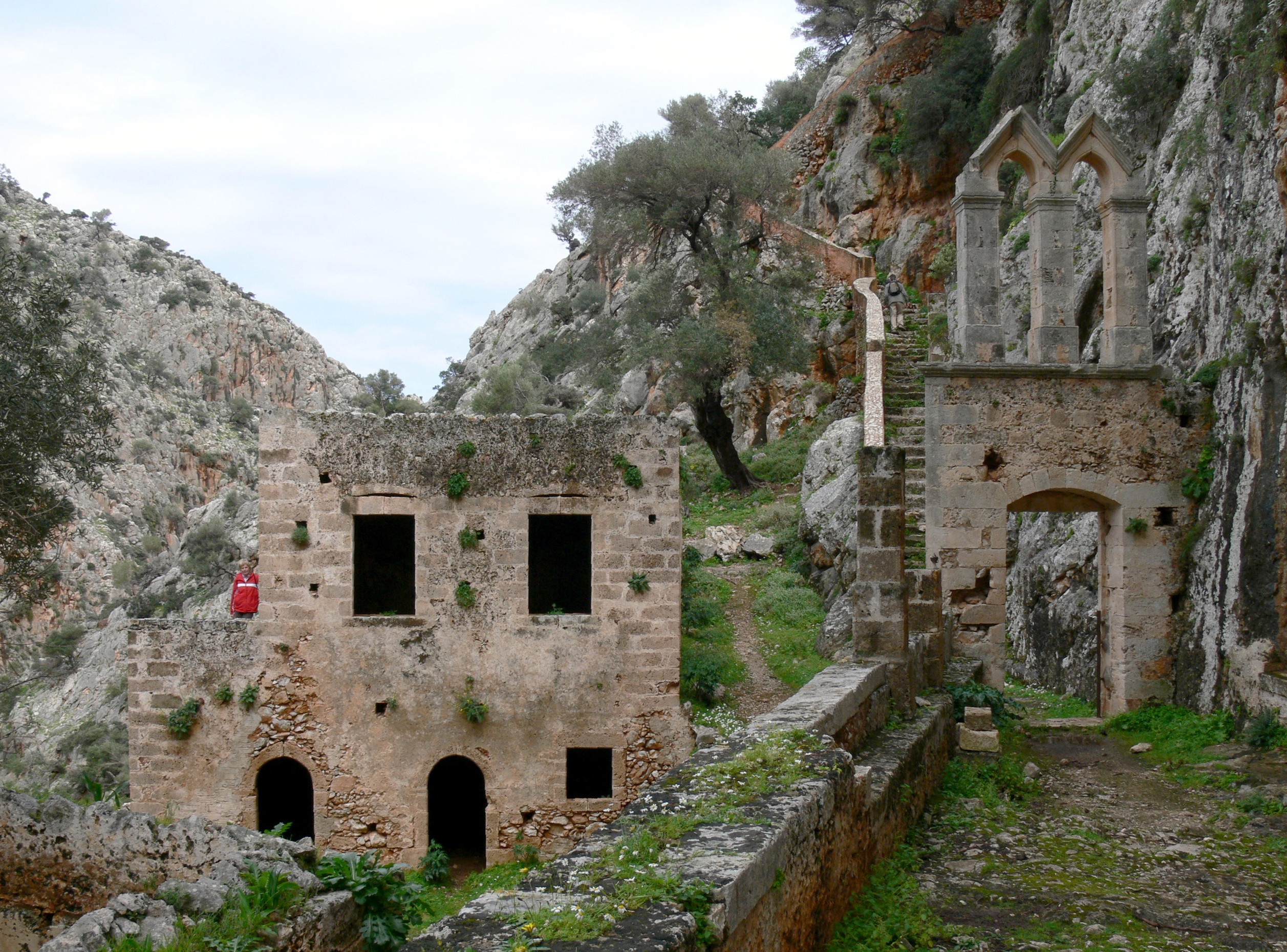 Katholikon monastery, Akrotiri (Crete). Entrance gate with pilgrims´ path and monastery building.